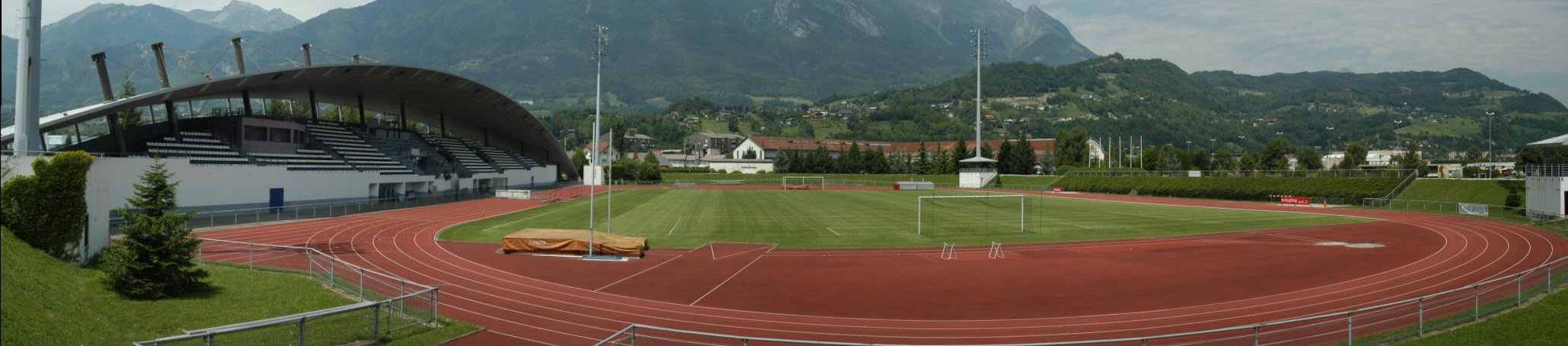 Former Olympic speed skating venue of the 1992 Albertville Winter Games. Nowadays in use for athletics and football.